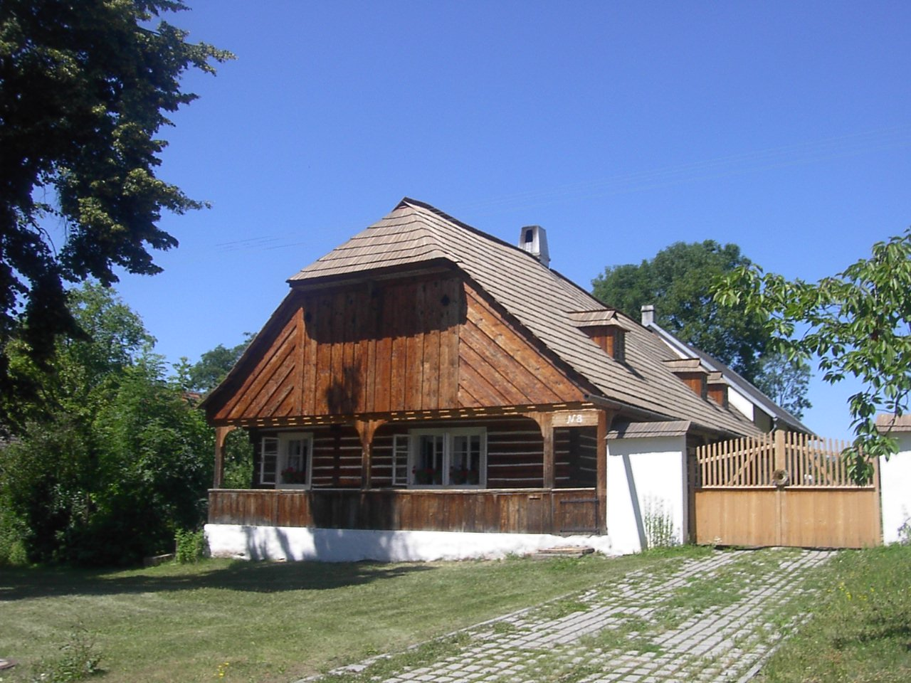 Wooden cottage n. 8 in Olešná, Beroun District, Czech Republic